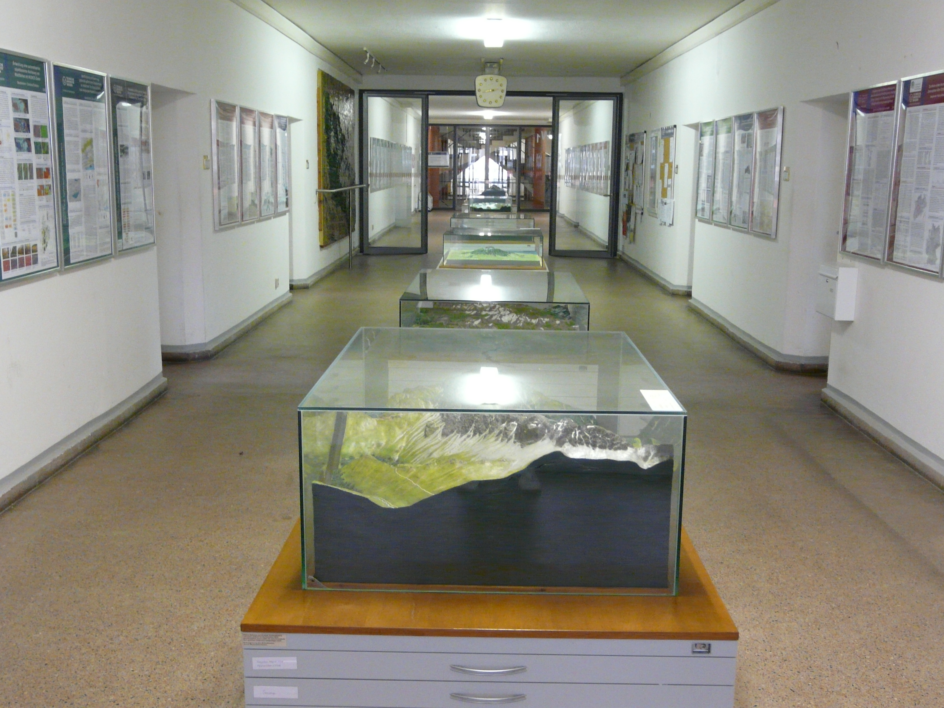 Corridor of the Institute for Cartography of the Dresden University of Technology